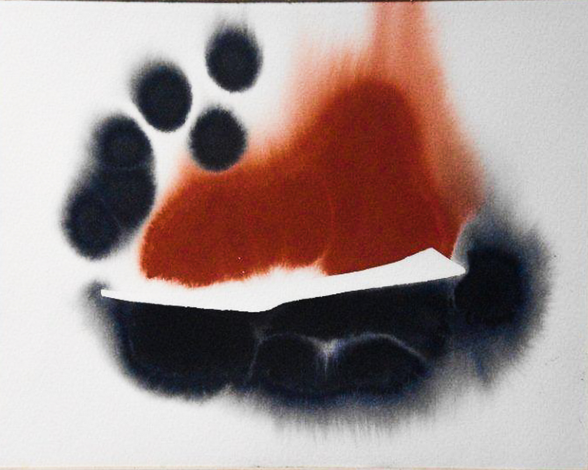 Orange–indigo tints on damp paper by Ian Sprague 1980s; photographed in a private collection at Enfield Victoria